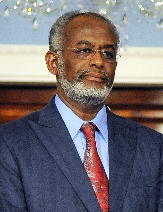 Cropped photograph of Ali Ahmed Karti; then Foreign Minister of Sudan.